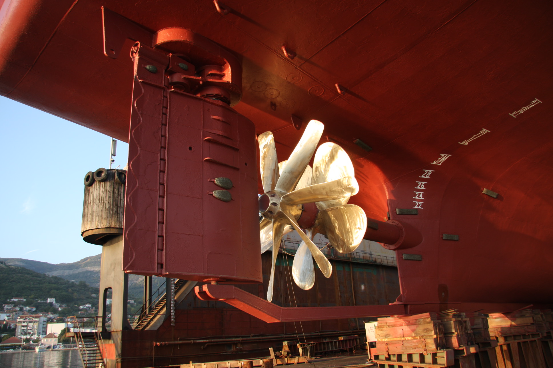 Grim's_Vane_Wheel